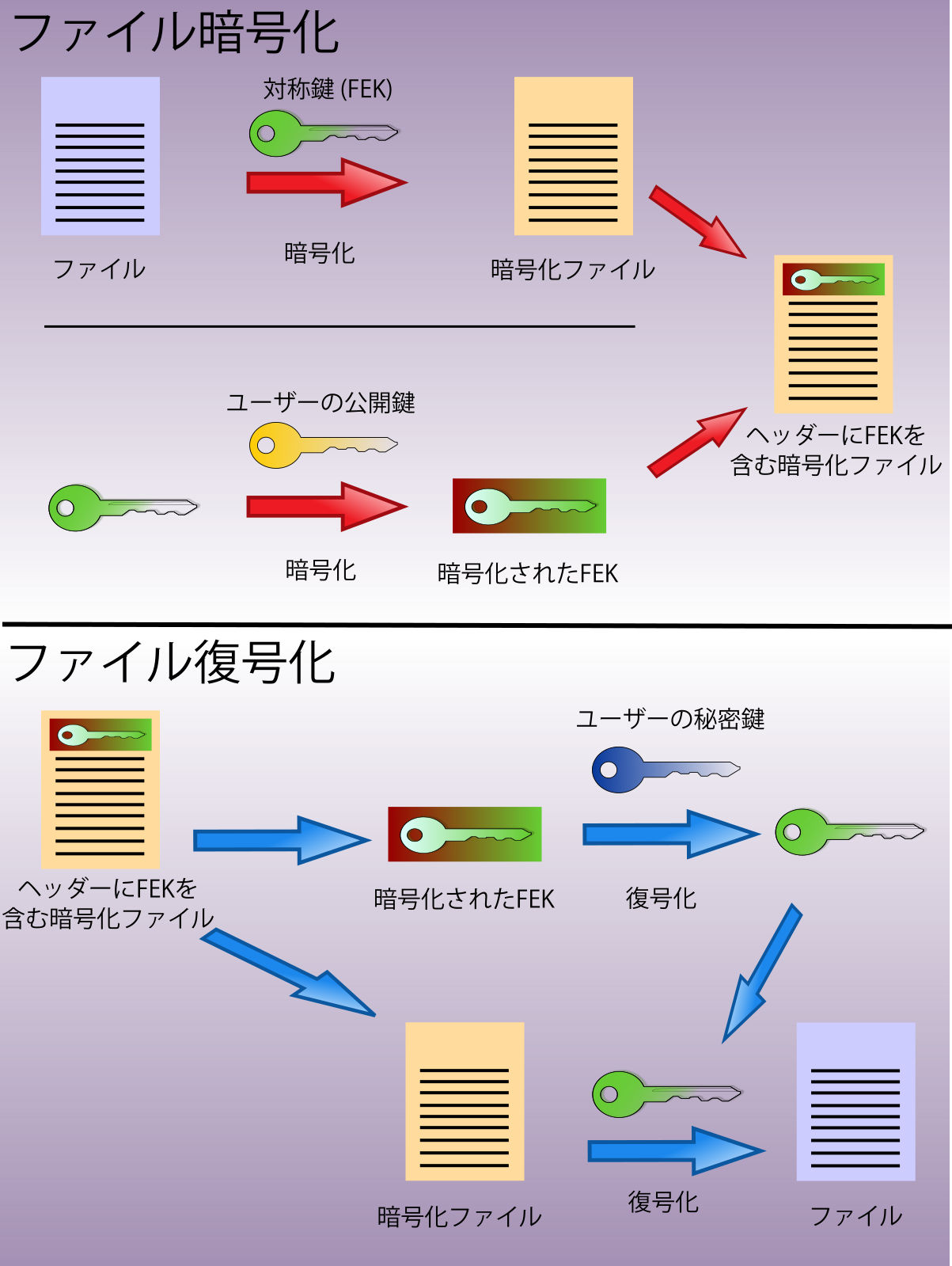 Flowchart for the operation of EFS (Encrypting File System). Translated in